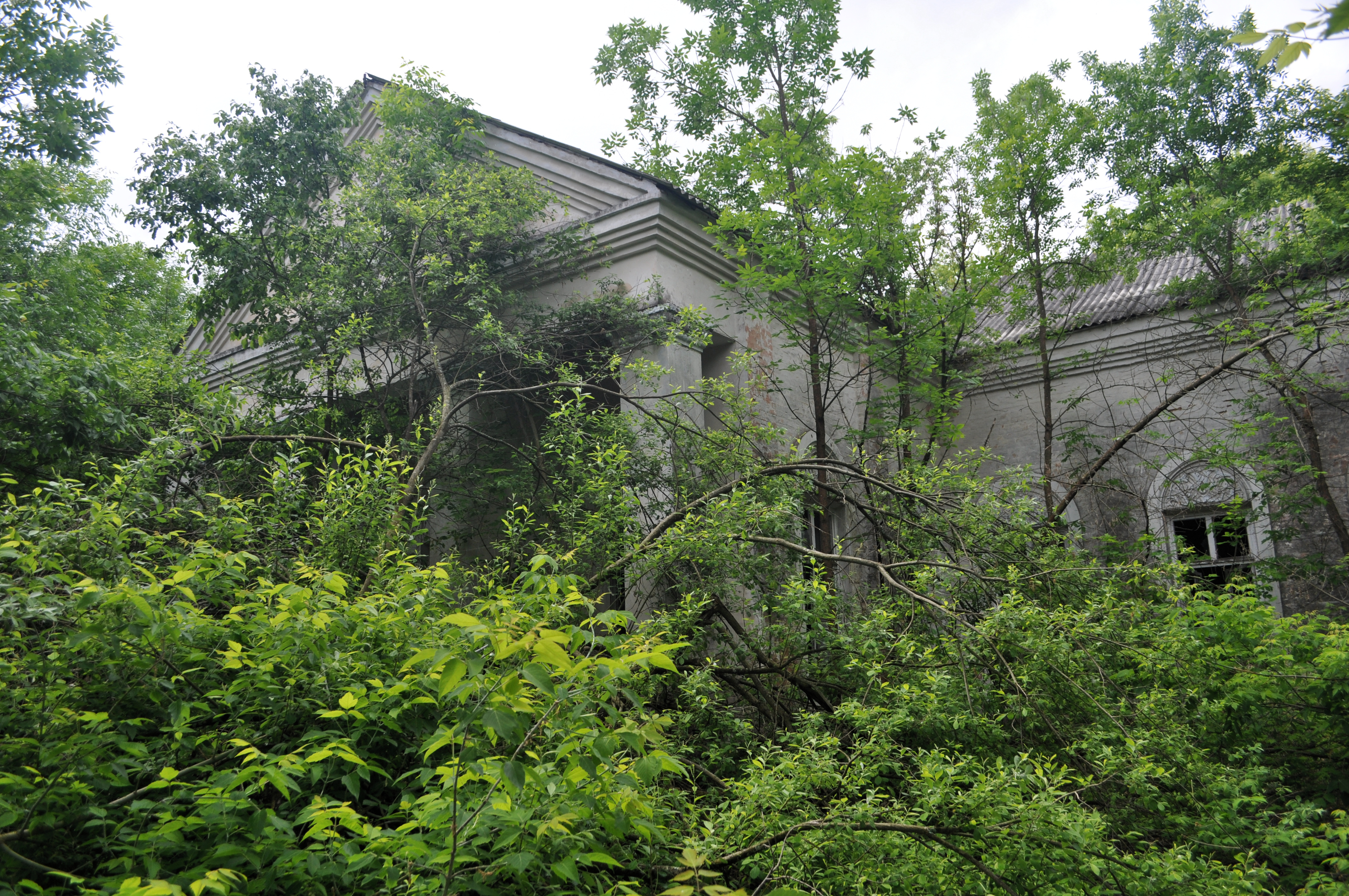 Cultural center in village Zalissya in Chernobyl Exclusion Zone